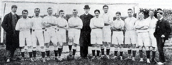 Hans Schneider, Karl Uhle, Heinrich Riso, Erhard Schmidt, Arthur Werner, Georg Steinbeck, Edgar Blüher, Paul Oppermann, Camillo Ugi, Martin Laessig, Adelbert Friedrich, Burkhardt, Dr. Ernst Raydt, Otto Eikhof (referee)